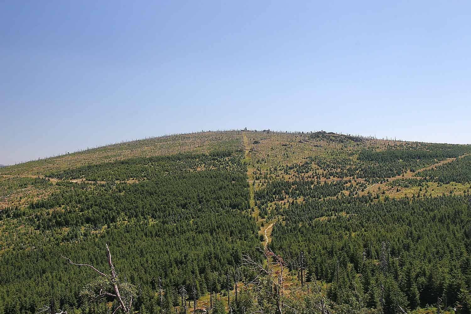 Jizera Mountains, district Liberec, Czech Republic